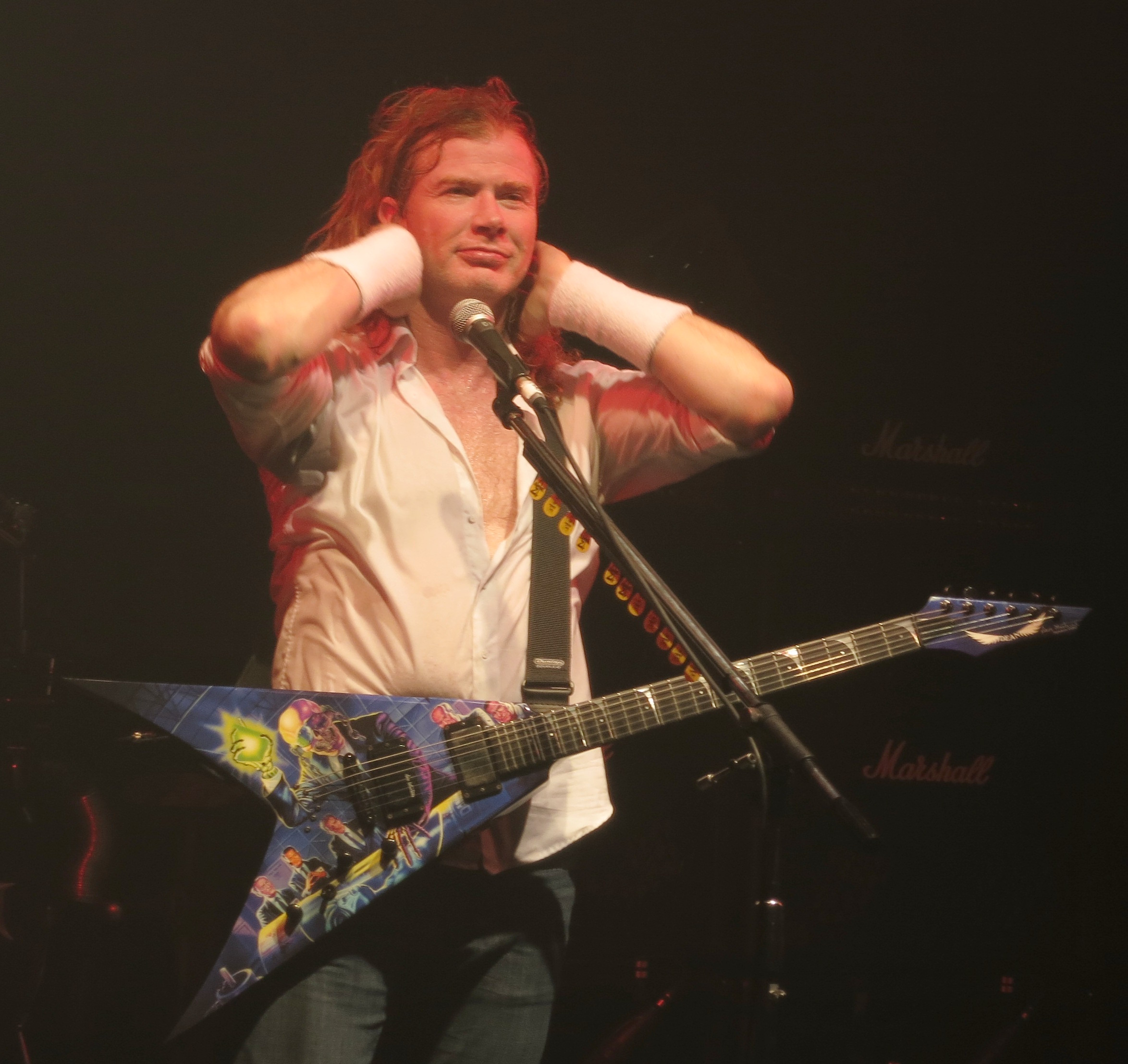 Dave Mustaine of Megadeth performing at the Electric Ballroom in London.